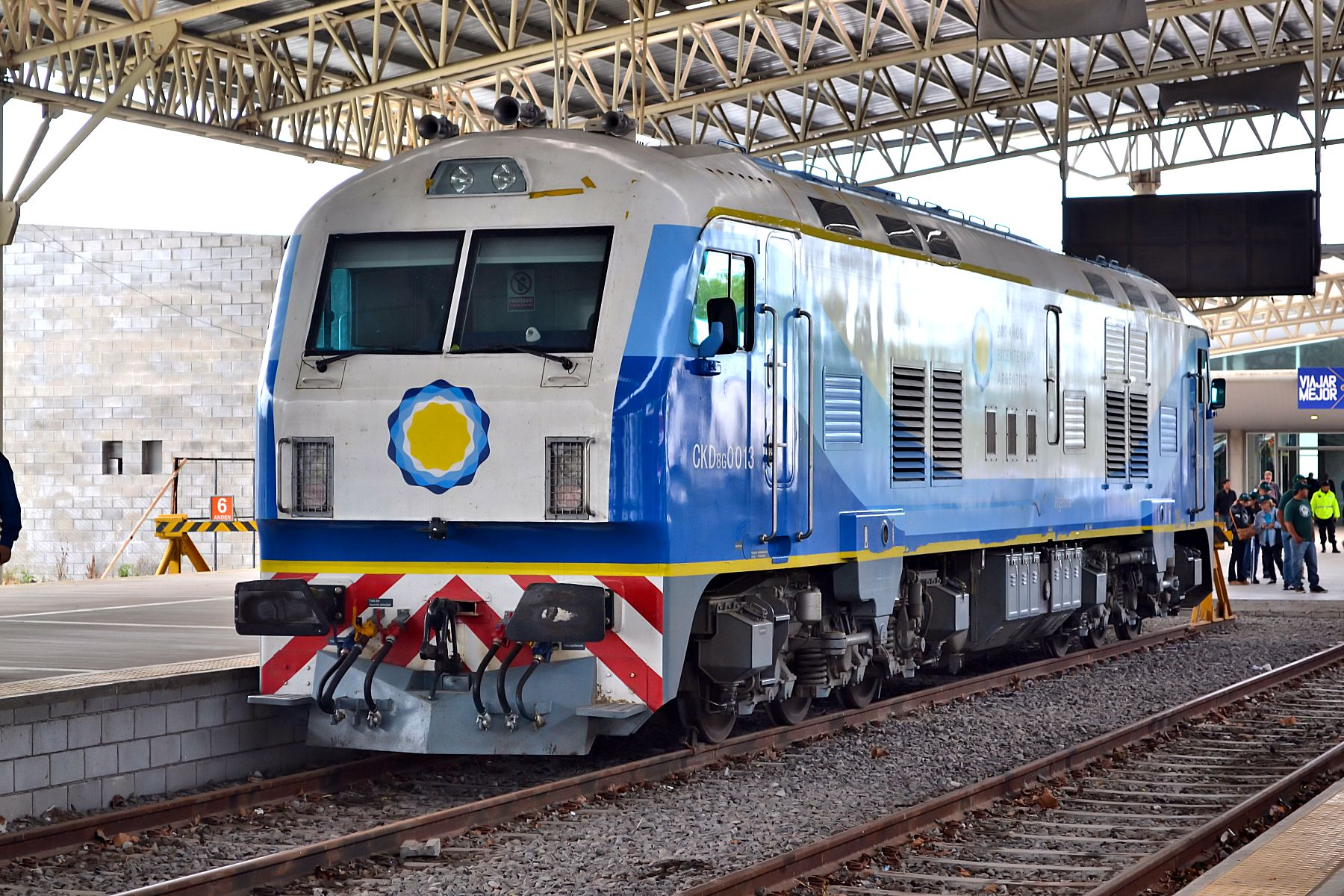 Arrival of new CSR trains at Mar del Plata train station, Province of Buenos Aires, Argentina